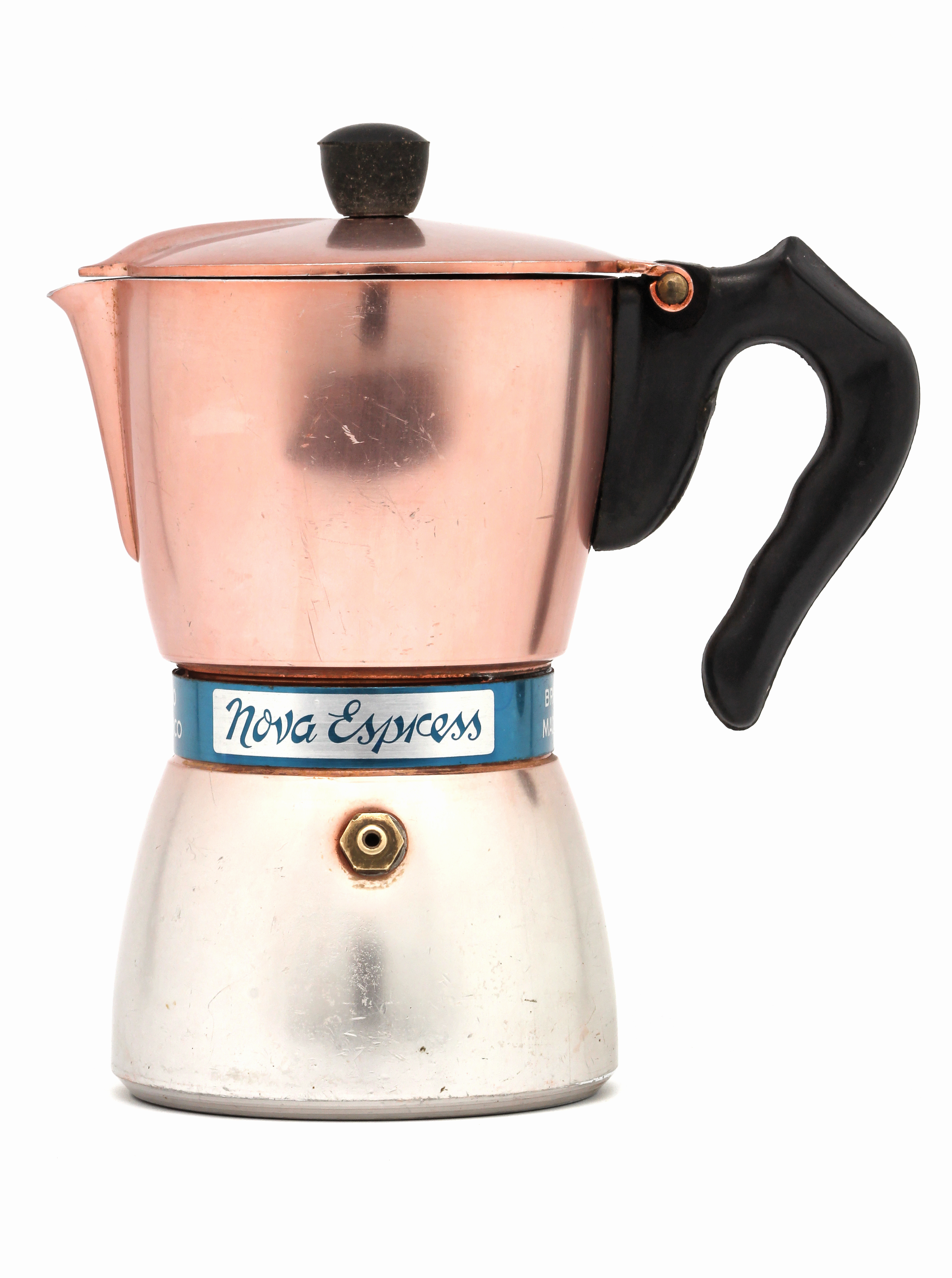 Moka pot